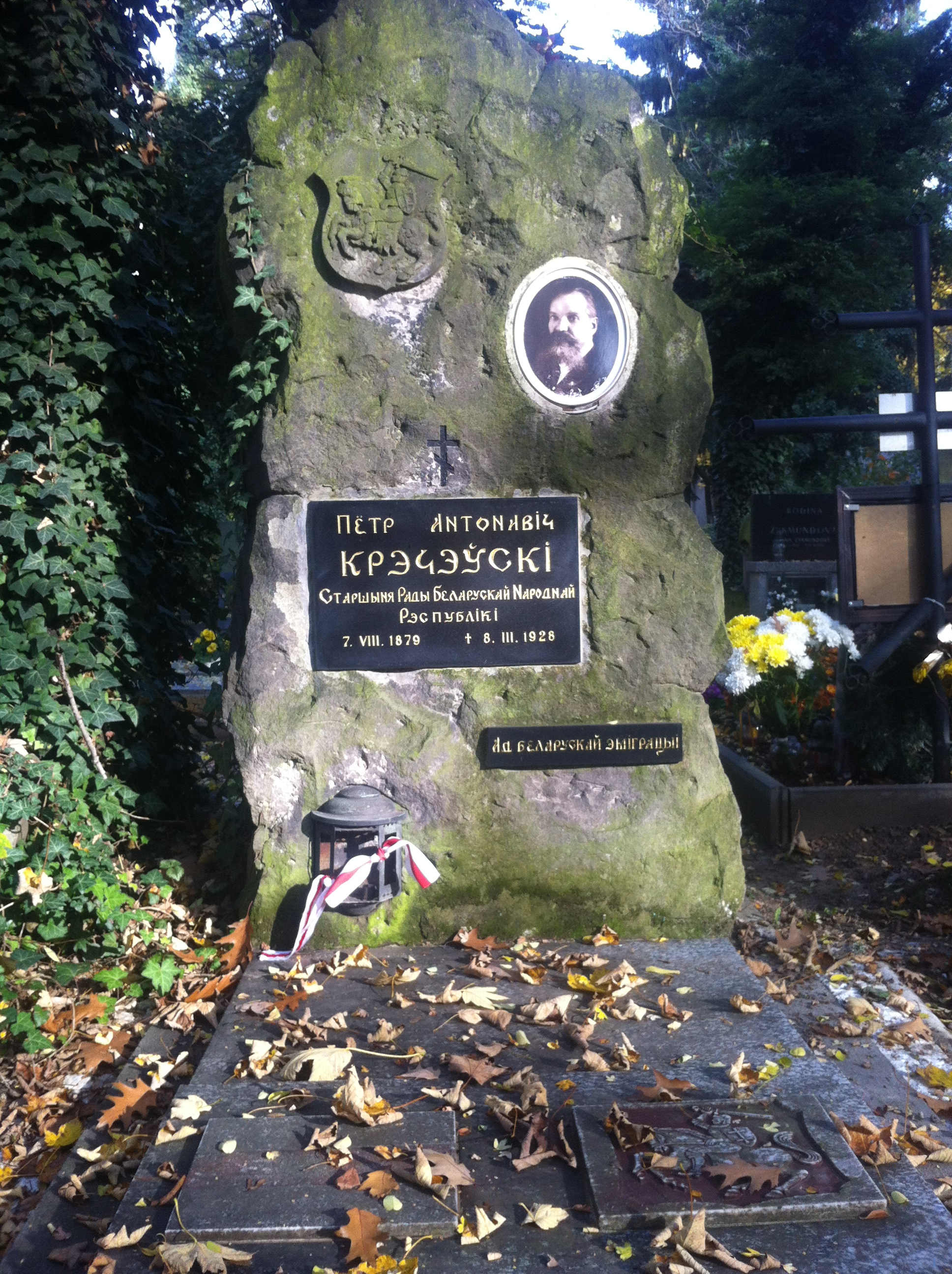 The grave of Piotra Kračeŭski at Olšanské cemetery in PragueБеларуская (тарашкевіца): Магіла Пётры Крачэўскага на Альшанскіх могілках у Празе